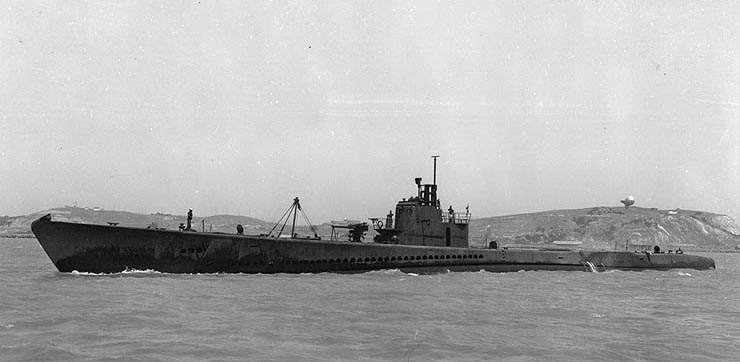 USS Sturgeon off Mare Island, 1943; ; Official U.S. Navy Photograph, from the collections of the Naval Historical Center.U.S. Naval Historical Center Photograph # NH 99230. Sturgeon (SS-187), off the Mare Island Navy Yard, California, 3 May 1943. Note the barrage balloon in the right background.